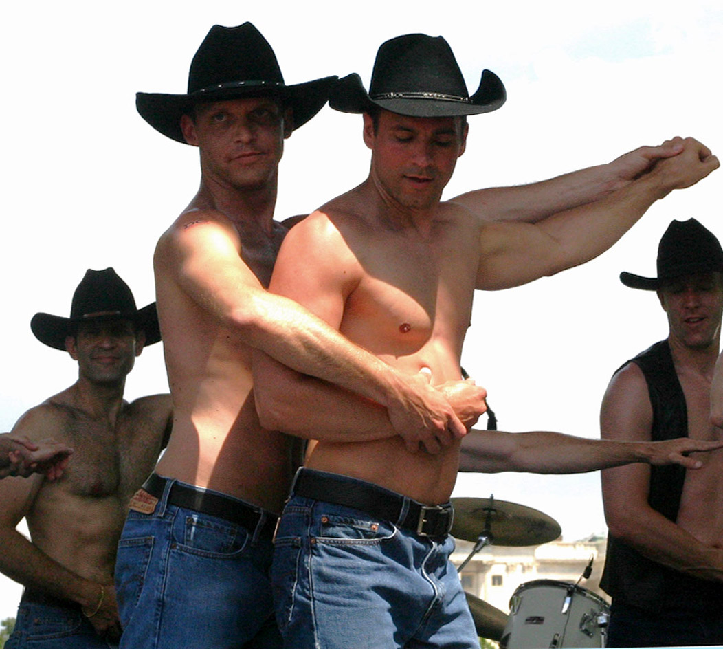 Gay cowboys gathering in Washington, D.C.